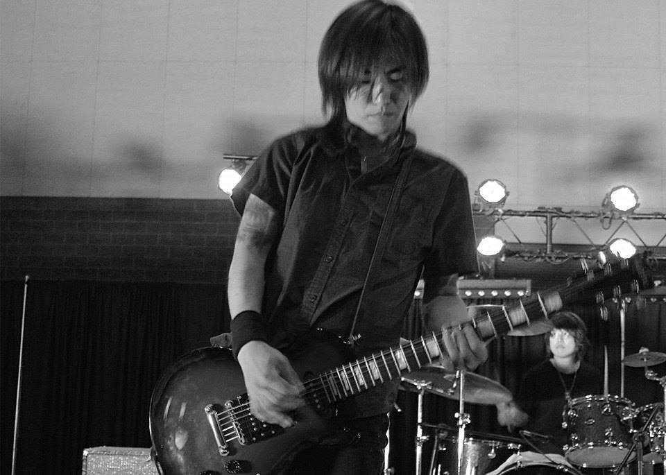 Hideki Matsushige performing at Arkansas Anime Festival 2017 with his band Kazha